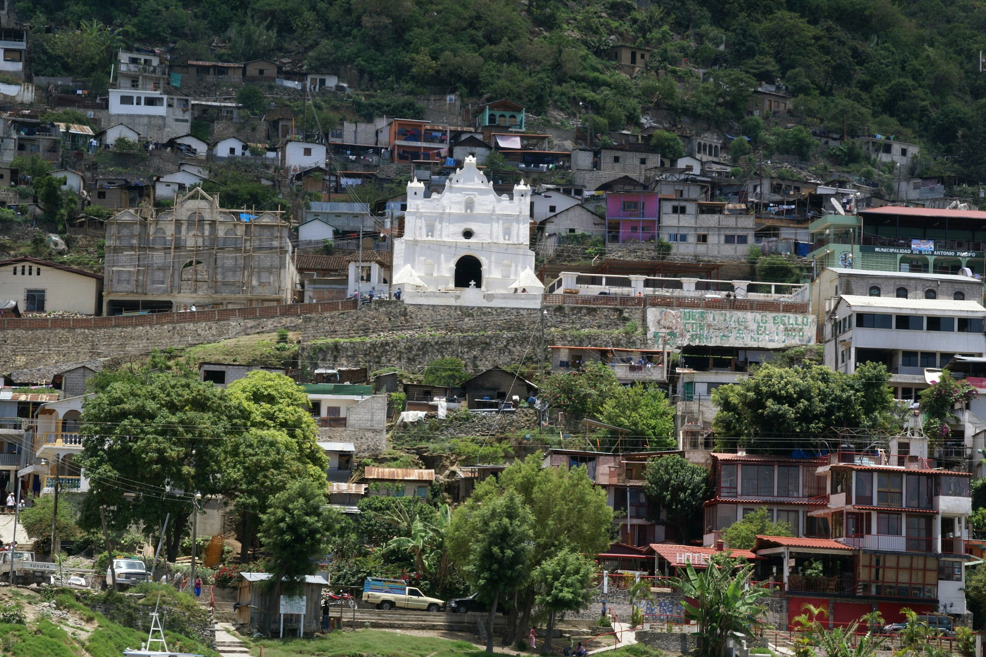 Town of San Antonio Palopó at the Atitlán Lake in Guatemala